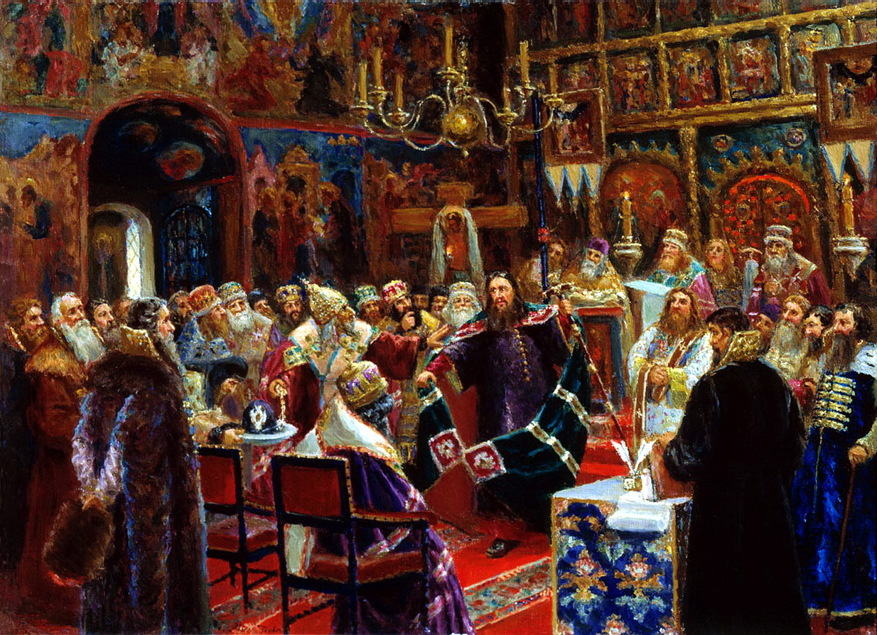 Court over patriarch Nikon